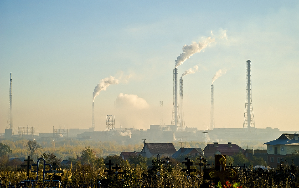 Industry in Russia.